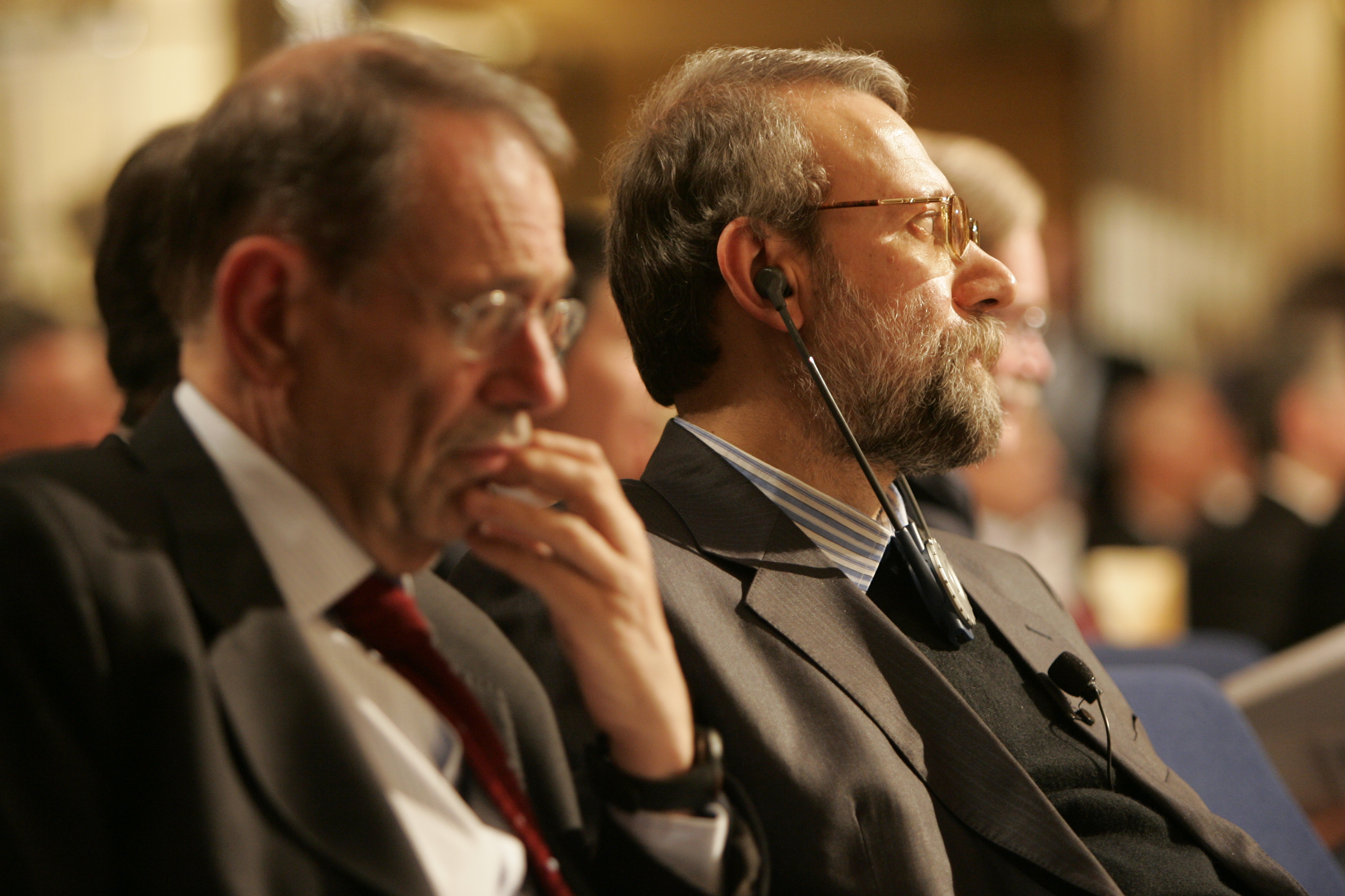 45th Munich Security Conference 2009: Dr. Javier Madariaga Solana (le) Secretary General, Council of the European Union, and Dr. Ali A. Larijani (ri), Speaker of the Majlis of Iran, Member of the Supreme National Security Council of Iran, during the Conference.